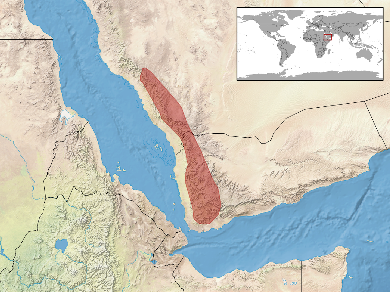 geographic distribution of Chamaeleo calyptratus (Native: Saudi Arabia; Yemen, Introduced: United States)